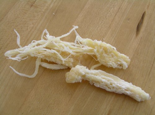 Dried Shredded Squid Sun Dried Squid Prepared Rolled Squid